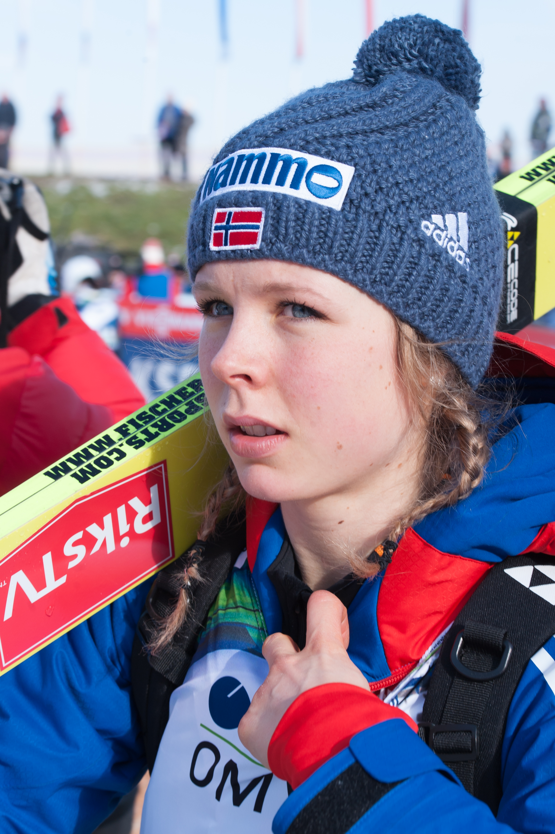 FIS Ski Jumping World Cup Hinzenbach Sun 1 Feb 2015